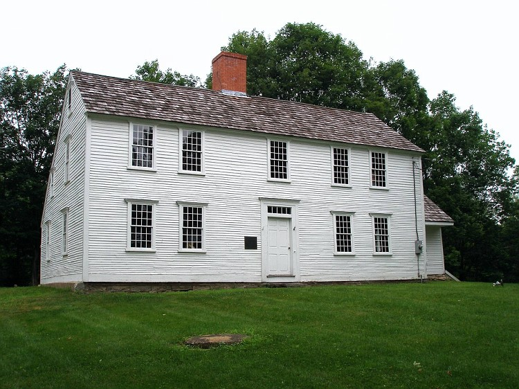 Samuel Huntington Birthplace, Scotland, Connecticut.